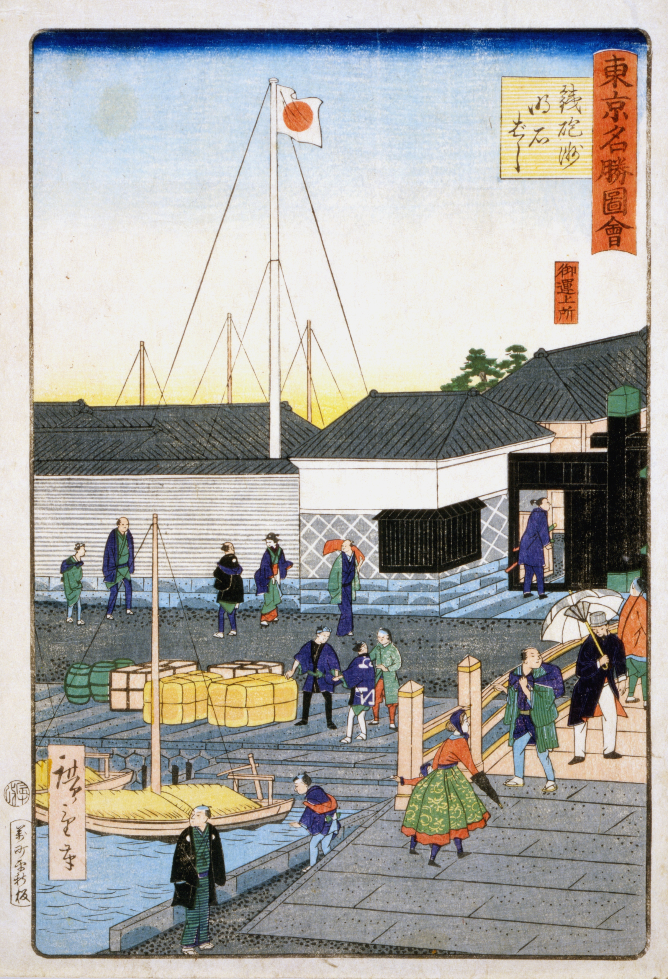 Teppōzu Akashi-bashi (Japanese: 鉄砲洲明石ばし, "The Akashi bridge in Teppōzu"), from the series Tōkyō meishō zu (Japanese: 東京名勝図, "Scenic places in Tokyo"). Print shows street scene in Tokyo with wharf and sailboat in the foreground, parcels on the wharf, people in traditional and Western dress, and buildings in the background, one of which is flying the Japanese flag. 1 print on hōsho paper : woodcut, color ; 34 x 22 cm. (block), 36.7 x 25 cm. (sheet)